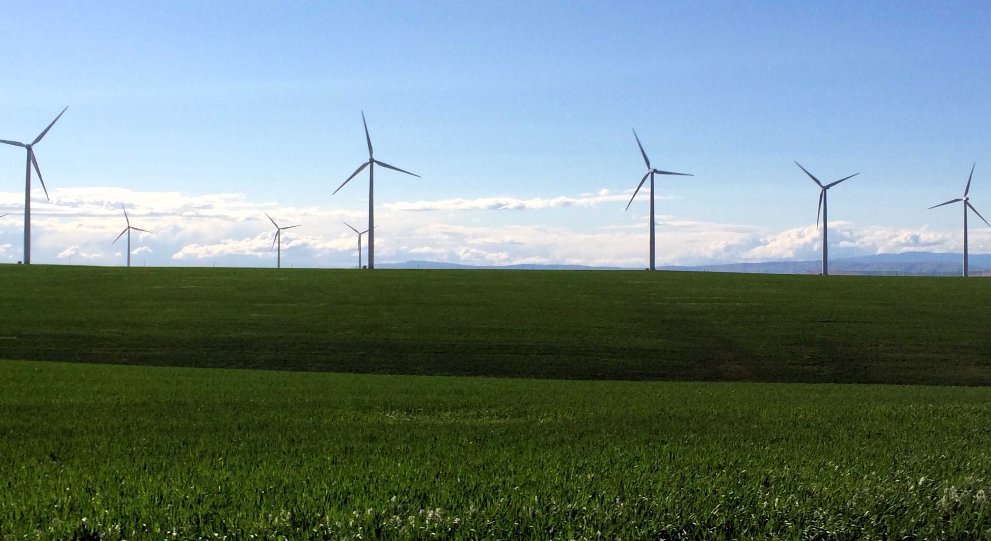 A wheat field in Spring with wind turbines.